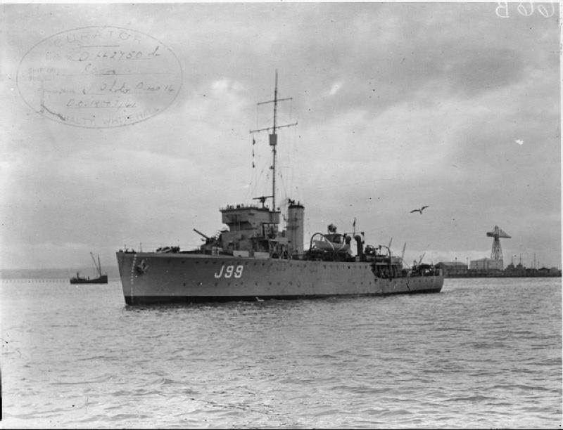 Photograph of British Halcyon class minesweeper HMS Jason.